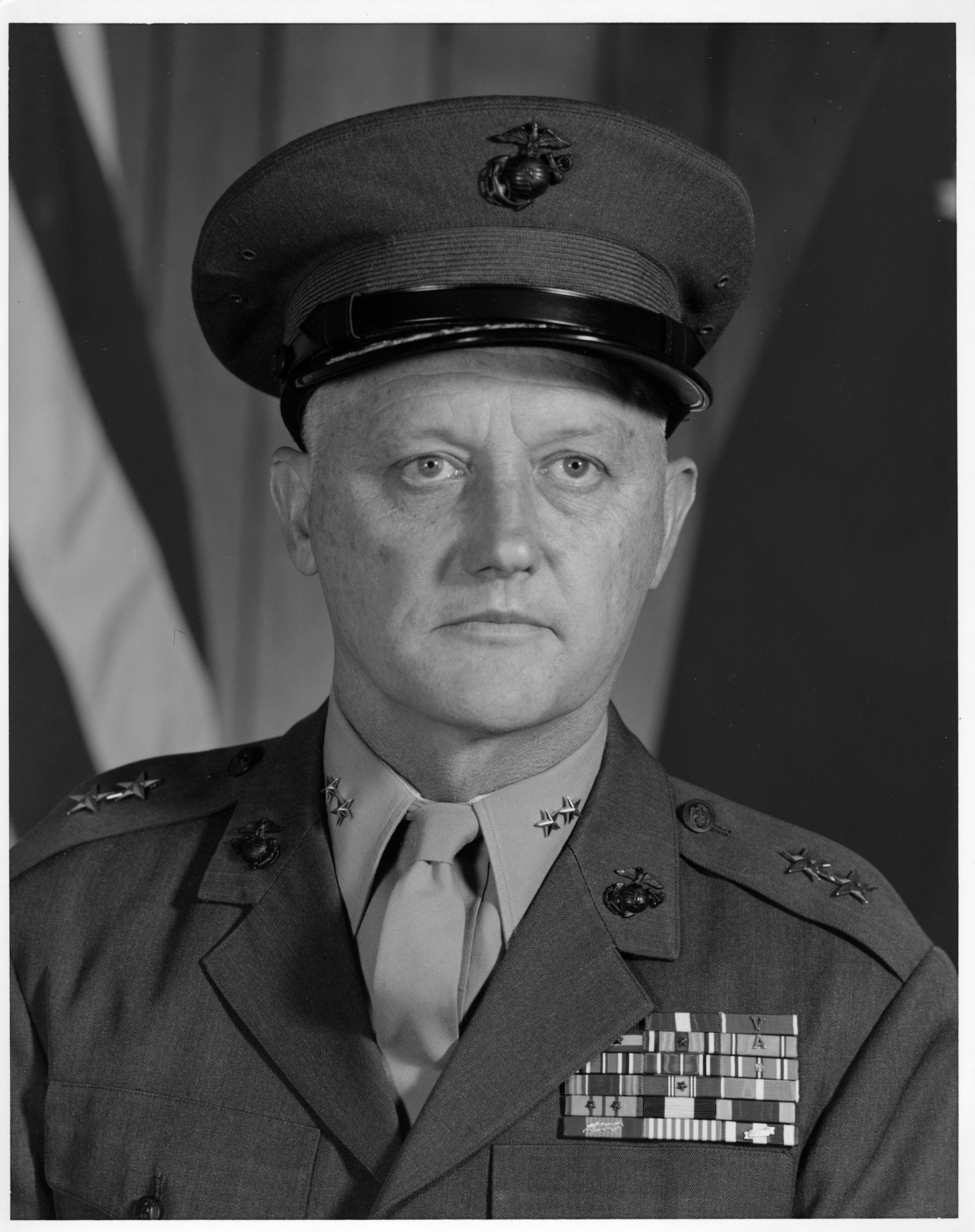 Michael Patrick Ryan (January 30, 1916 - January 9, 2005) was a highly decorated officer of the United States Marine Corps with the rank of Major General. He is most noted for his service as Company Commander during Battle of Tarawa, where he earned Navy Cross, the United States military's second-highest decoration awarded for valor in combat. Ryan later served in Korean and Vietnam Wars and ended his career as Director of Marine Corps Reserve. He co-founded together with Colonel James L. Fowler, the Marine Corps Marathon.